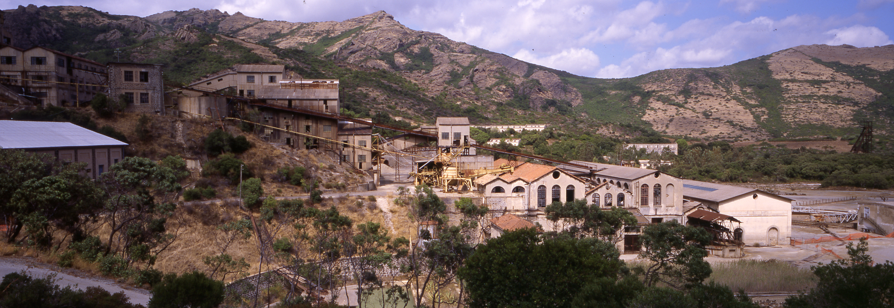 view of montevecchio mine, west sardinia, italy